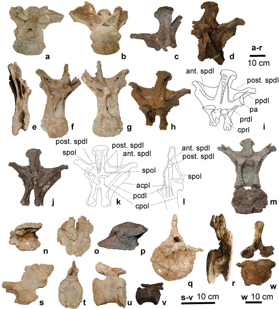 The postcranial skeleton (UMNH.VP.26004) of Mierasaurus bobyoungi gen. nov, sp. nov. with the following elements: (a) anterior dorsal vertebra (DBGI 54 A) in posterior view; (b) anterior dorsal vertebra (DBGI 54 A) in anteroventral view; (c) neural arch of a middle dorsal vertebra (DBGI 37) in right anterolateral view; (d) posterior neural arch of a dorsal vertebra (DBGI 19 A) in posterior view; (e) anterior dorsal vertebra (DBGI 16) in right lateral view; (f) anterior dorsal vertebra (DBGI 16) in posterior view; (g) posterior dorsal vertebra (DBGI 16) in anterior view; (h,i) posterior dorsal vertebra (DBGI 100NA 1) in anterior view; (j,k) posterior dorsal vertebra (DBGI 100NA 1) in posterior view; (l) posterior dorsal vertebra (DBGI 100NA 1) in left lateral view; (m) middle dorsal vertebra (DBGI 11) in anterior view; (n) centrum of a posterior dorsal vertebra (DBGI 24B) in ventral view; (o) centrum of a posterior dorsal vertebra (DBGI 24B) in anterior view; (p) centrum of a posterior dorsal vertebra (DBGI 192) in ventral view; (q) anterior-middle caudal vertebra (DBGI 23B) in anterior view; (r) anterior-middle caudal vertebra (DBGI 23B) in right lateral view; (s) posterior neural arch of a posterior caudal vertebra (DBGI 48) in left lateral view; (t) posterior caudal vertebra (DBGI 21) in anterior view; (u) posterior caudal vertebra (DBGI 21) in right lateral view; (v) distal caudal vertebra (DBI 37-34-529) in right lateral view; (W) anterior caudal vertebra (DBGI 192) in posterior view. For abbreviations see supplementary information. (i), (k) and (l) were drafted by R.R.T. (© Fundación Conjunto Paleontológico de Teruel-Dinópolis) in Adobe Illustrator CS5 (